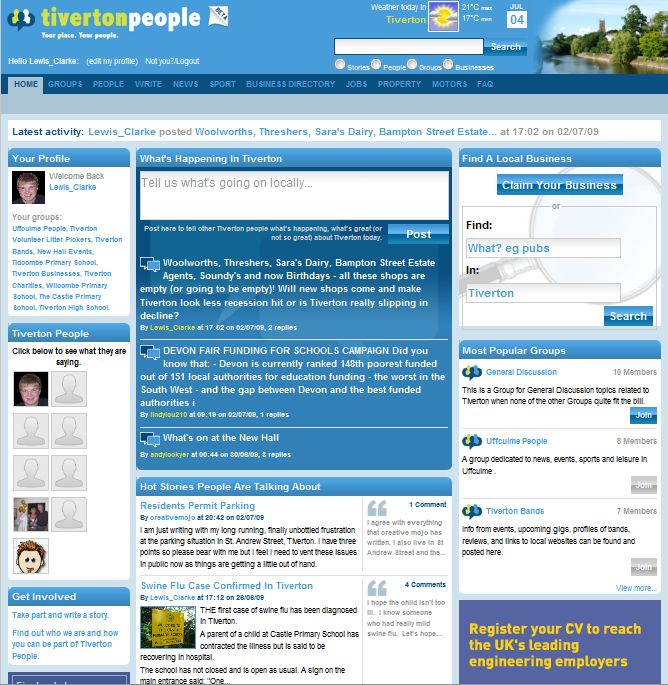 The homepage of Tiverton People - a website for people to talk, discuss, and raise issues about the Tiverton.